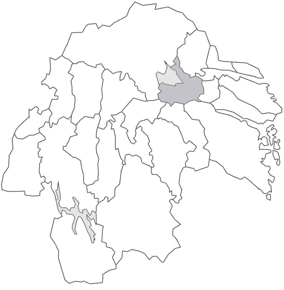 Map describing the location of Memming Hundred in Östergötland County, Sweden.